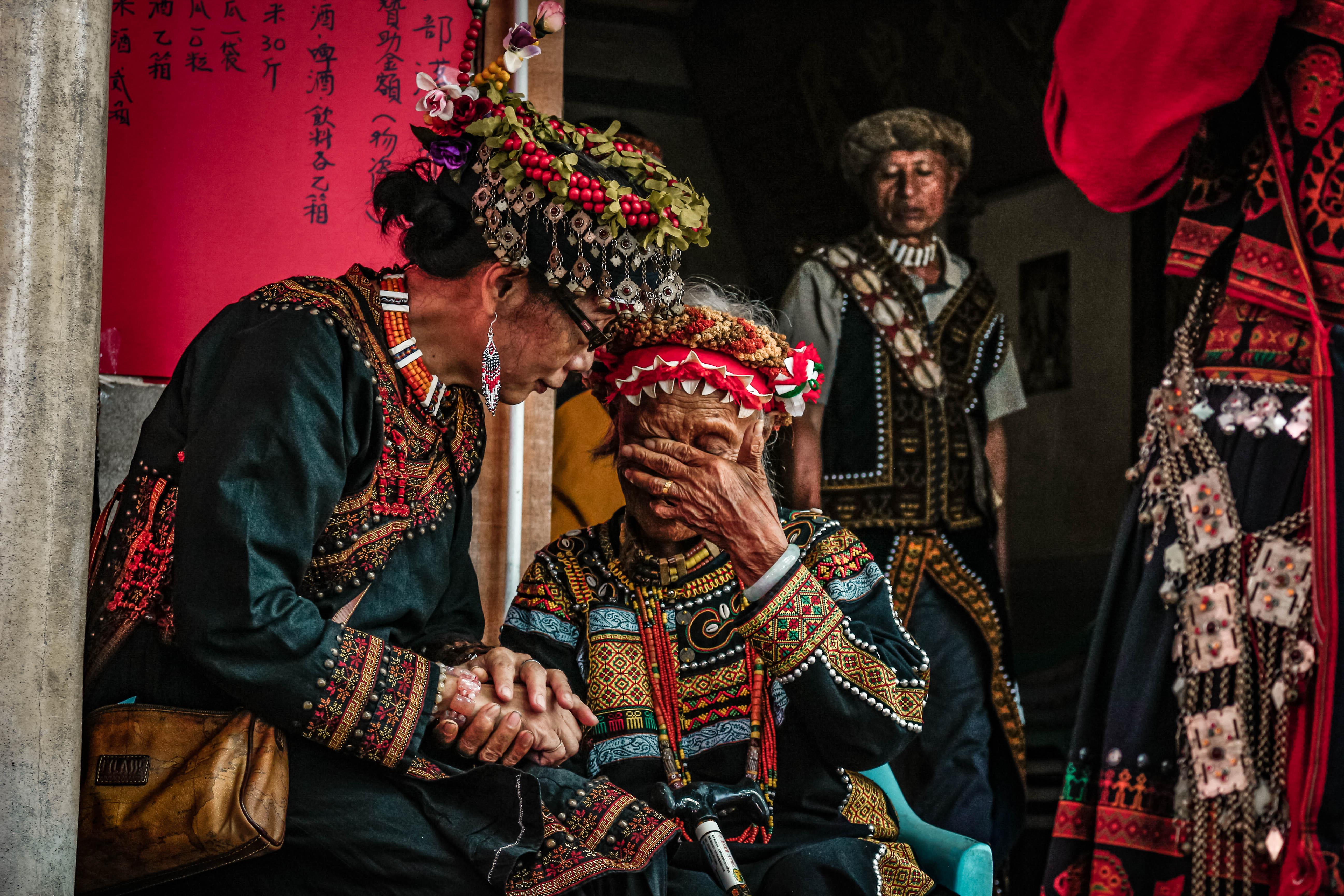 On the upper reaches of Taimali Creek, Dawu Mountain moved to Zhengxing Village in Jinfeng Township. Due to the large number of people, half of them moved to Xinyuan Village in Taitung City. They can only meet their family members at the annual festival. The tears are for the time they have lost with each other. This photo has been taken in the country: Taiwan